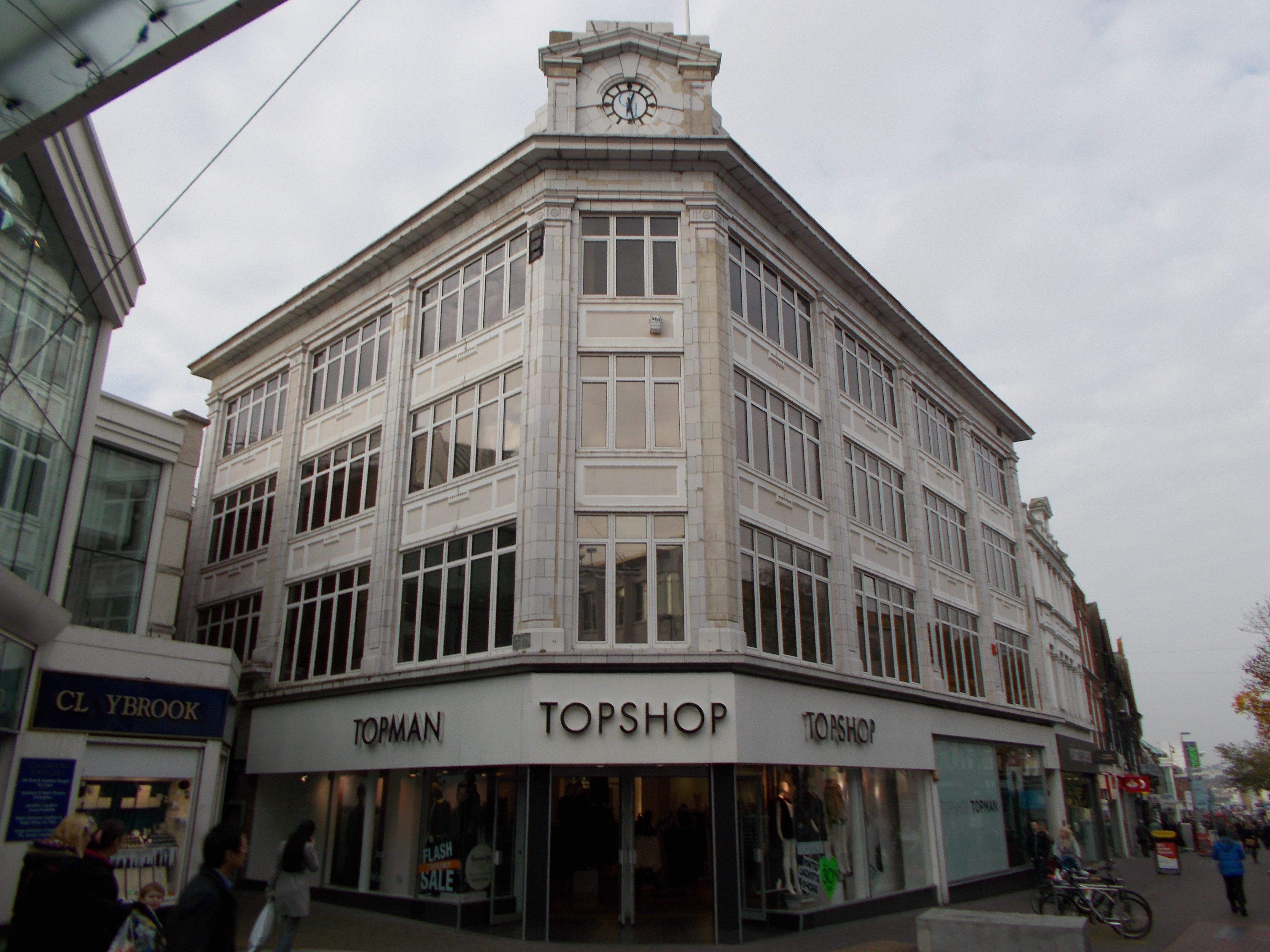 Top Shop Sutton High Street, Greater London